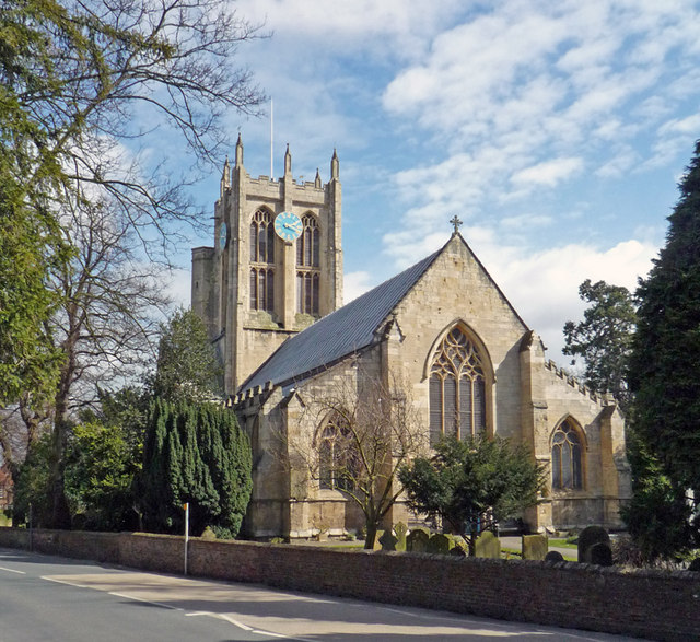 Church of St. Mary the Virgin, Cottingham, East Riding of Yorkshire, England.Photo taken from Hallgate.